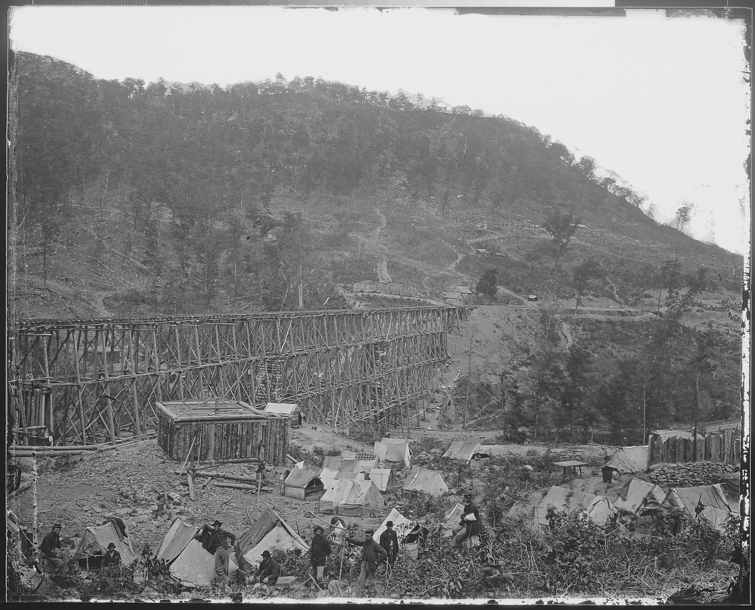 Scope and content: Nashville & Chattanooga Railroad bridge over Running Water Creek (Whiteside), Tennessee. Rebuilt by the 59th Illinois Regiment, Union Army in 1863 after retreating Confederate Army destroyed the original bridge, at a cost of $95,000.00. At five hundred feet in length and ninety-five feet high, with the wooden trestle extending the length to 780 feet. it became one of the Civil War's greatest feats of military engineering. The bridge was washed away on March 5, 1867 in the great flood.